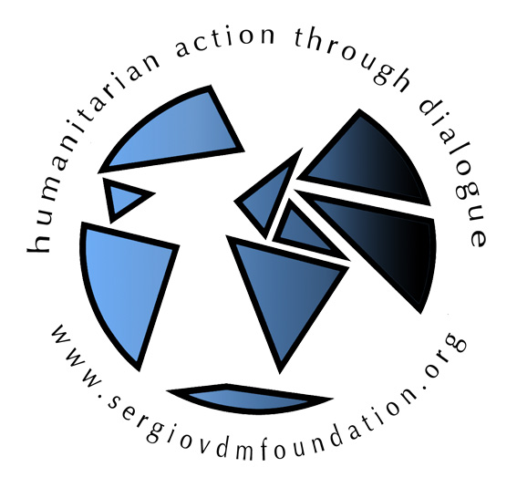 This logo was made by myself, son of Sergio Vieira de Mello for the Sergio Vieira de Mello Foundation